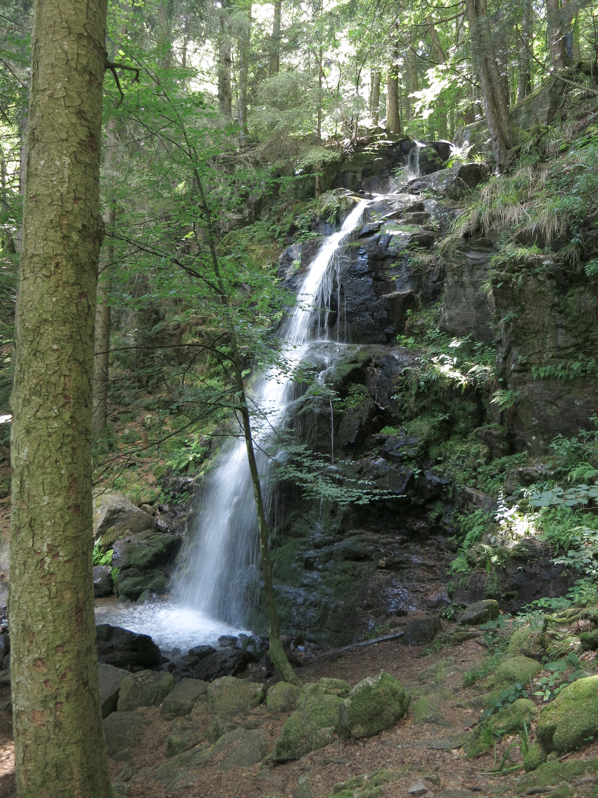 upper part of Zweribachfall, cascade in Schwarzwald